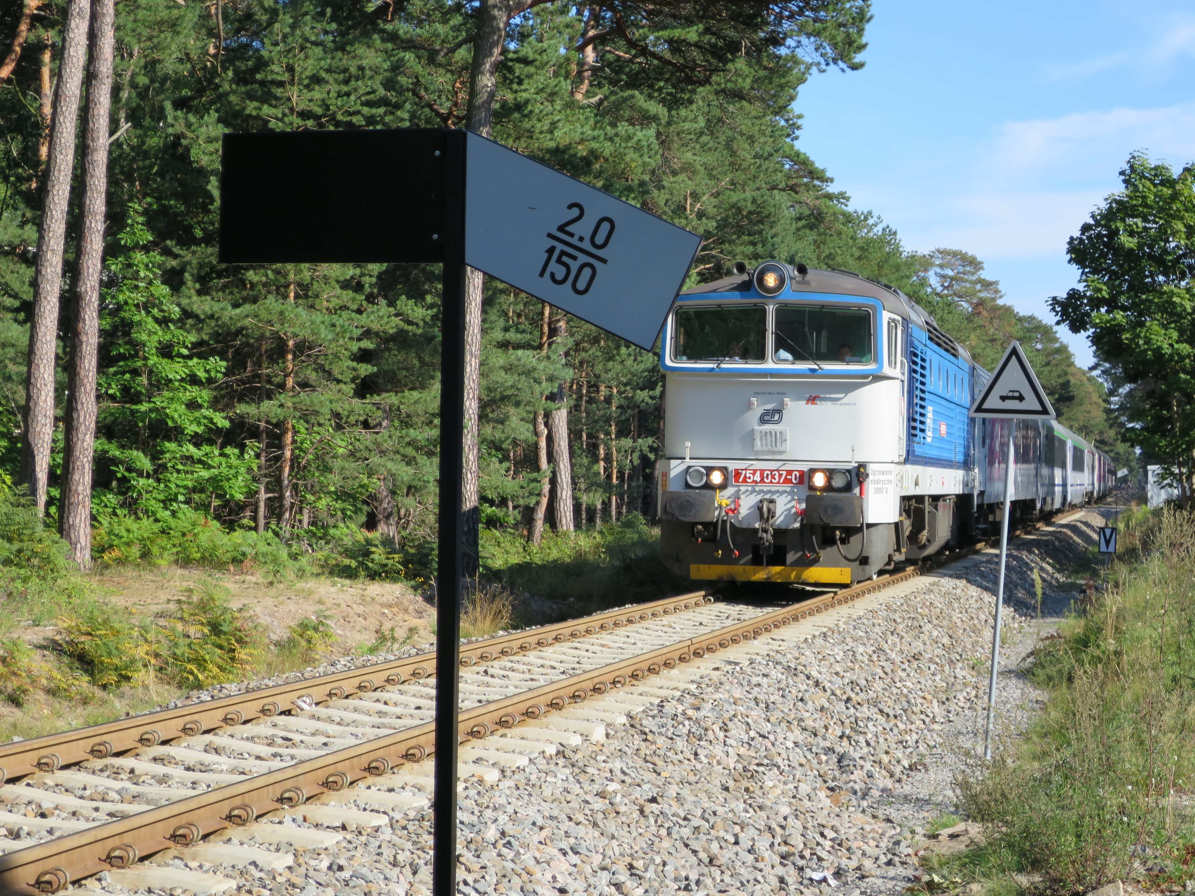 ČD Class 754 w Juracie ze składem ExpressInterCity This photo was taken during Railway Wikiexpedition 2015 set up by Wikimedia Polska Association in cooperation with Fundacja Grupy PKP.You can see all photographs in category Wikiekspedycja kolejowa 2015.